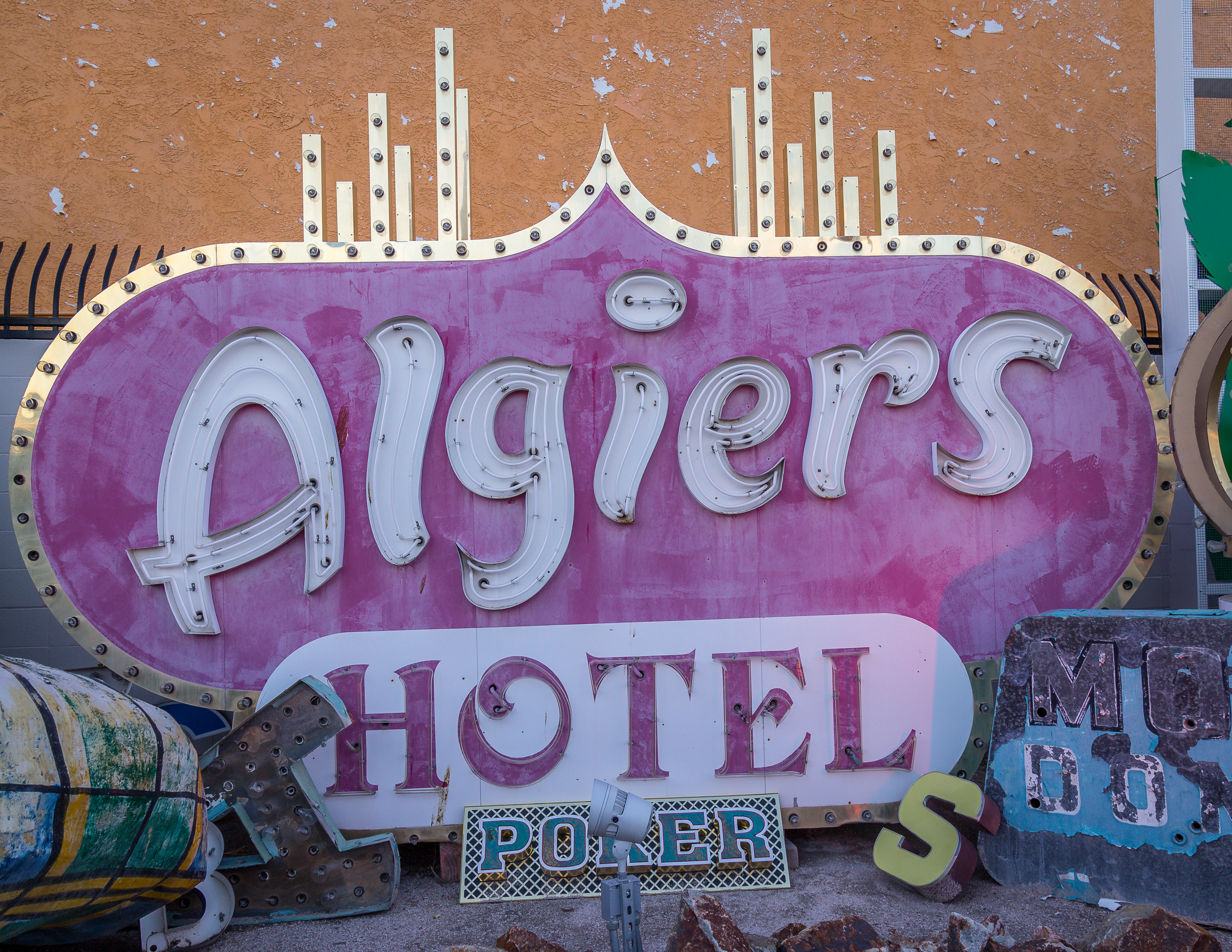 A sign, for the demolished Algiers Hotel, located at the Neon Museum in Las Vegas.